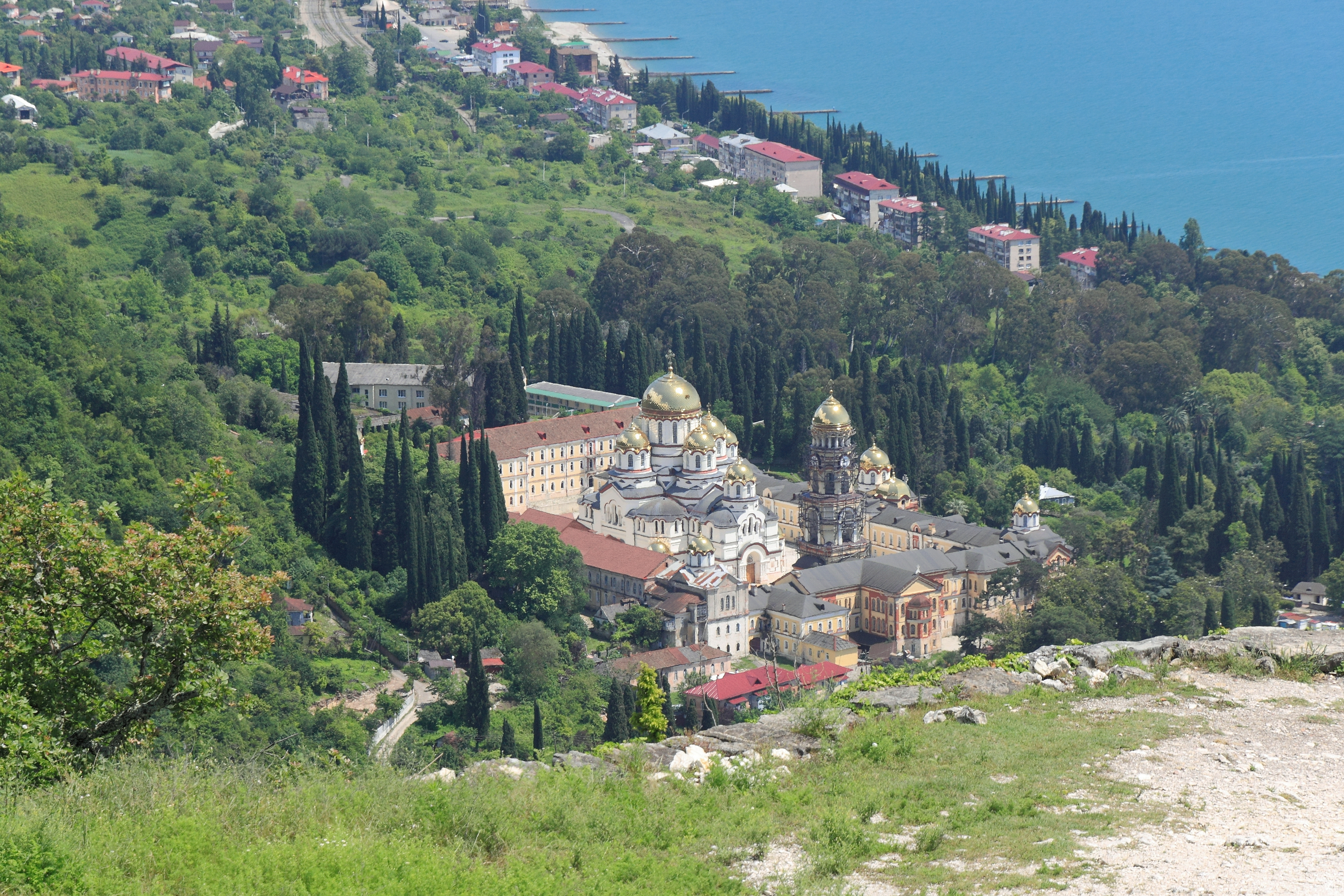 View from the peak of Iverian Mountain. New Athos, Gudauta District, Abkhazia.